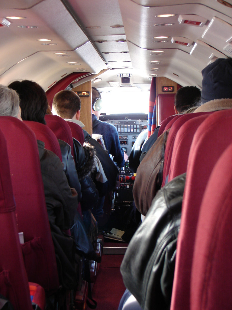 Interior cabin of Fairchild Metroliner (Bearskin Airlines C-GYTL)